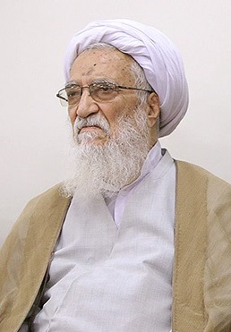 Ali Movahedi Kermani